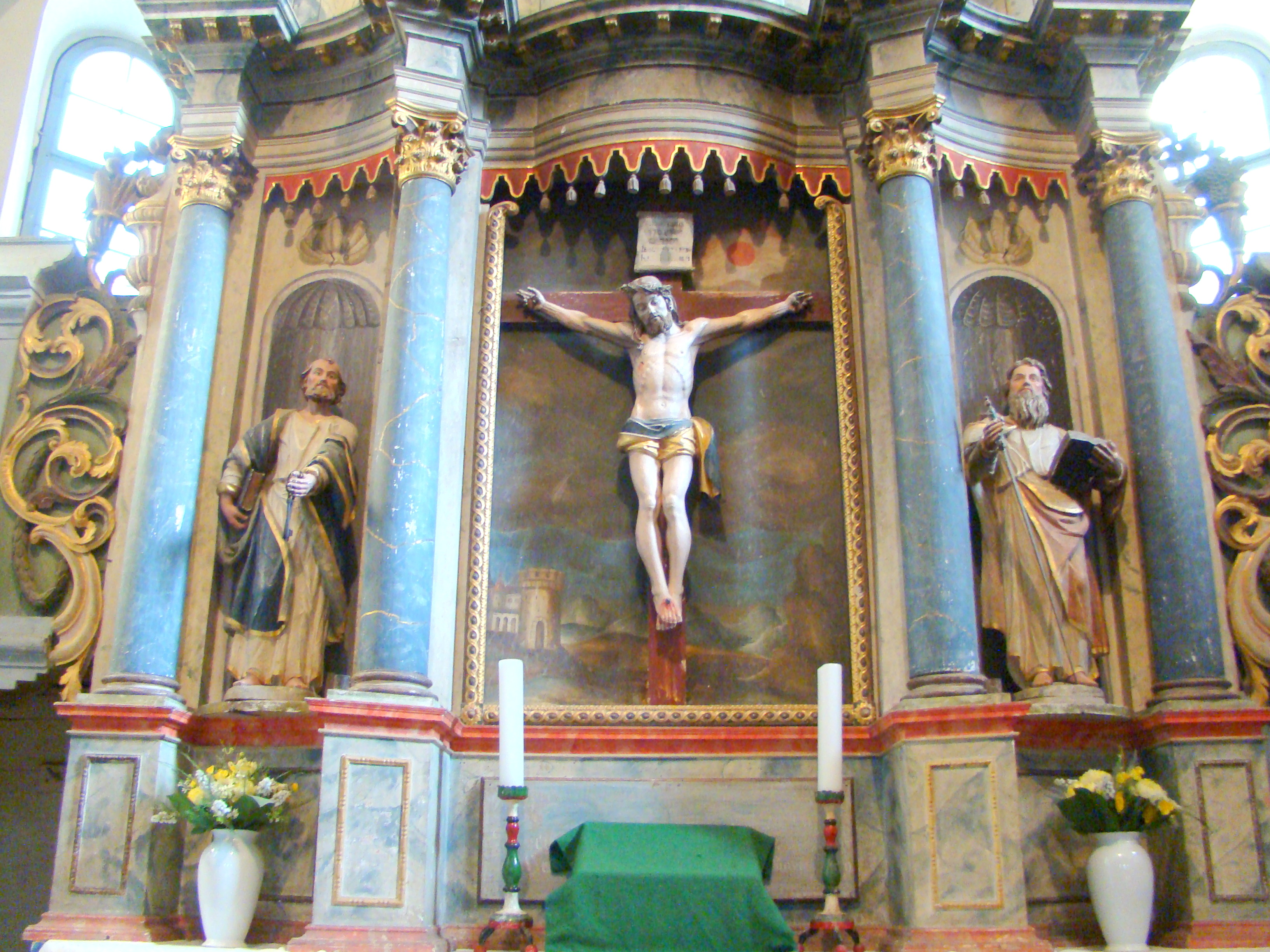 Fortified church in Homorod, Brașov County, Romania